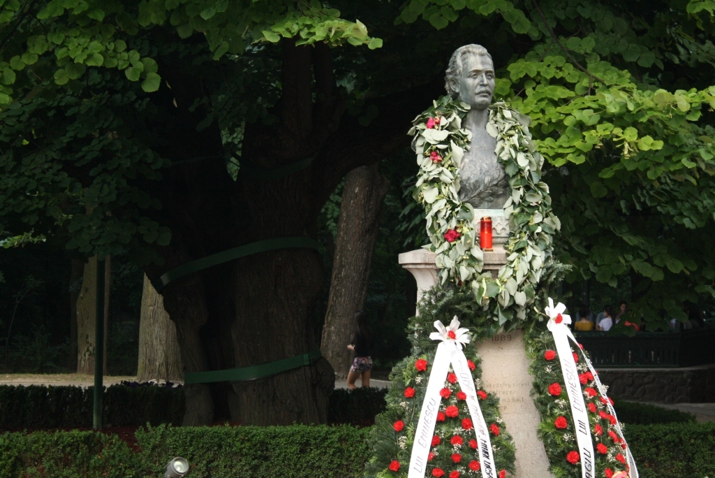 Eminescu's Linden TreeRomână: Teiul lui Eminescu